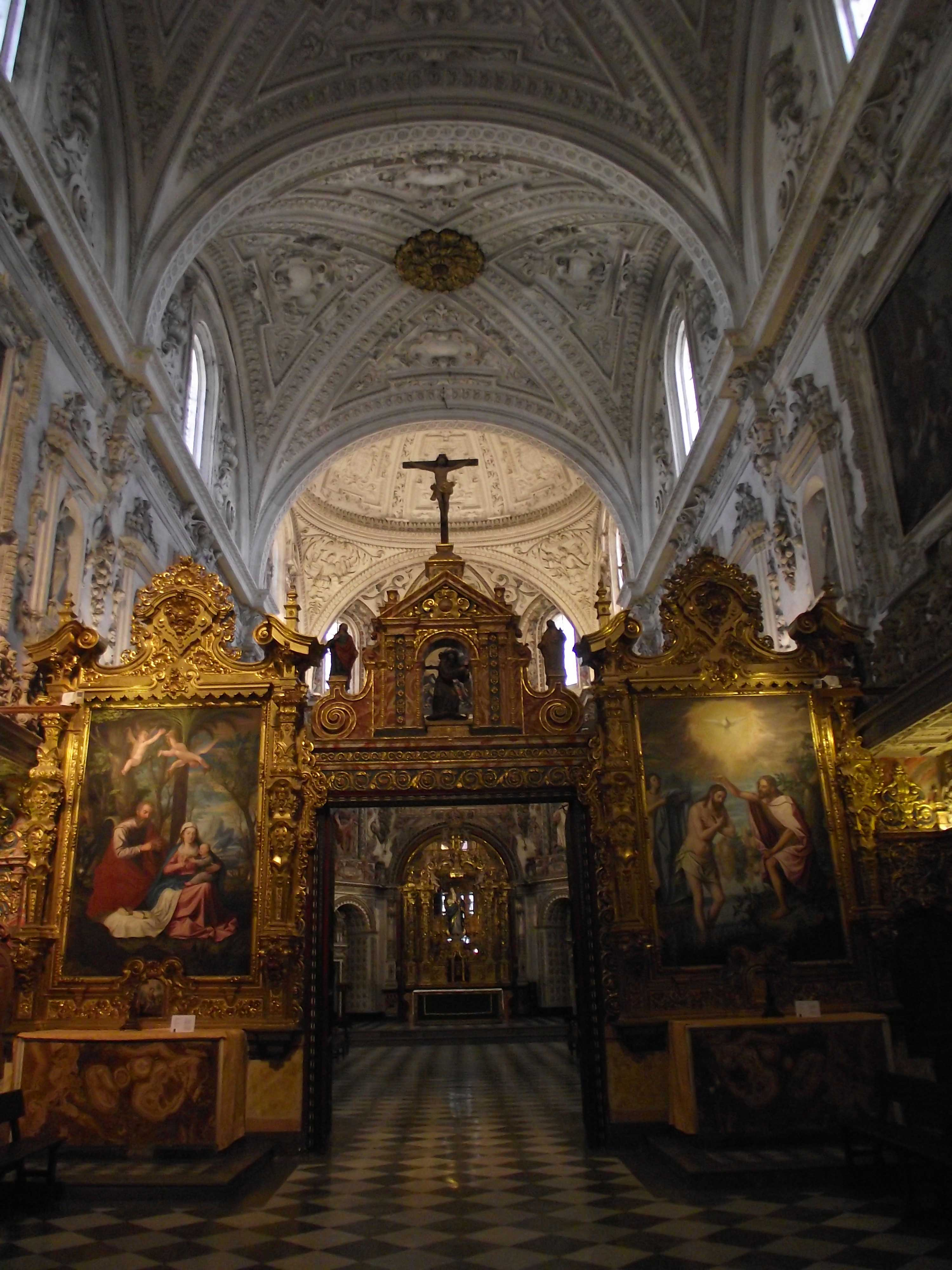 Charter house of Granada, XVI-XVIII Century